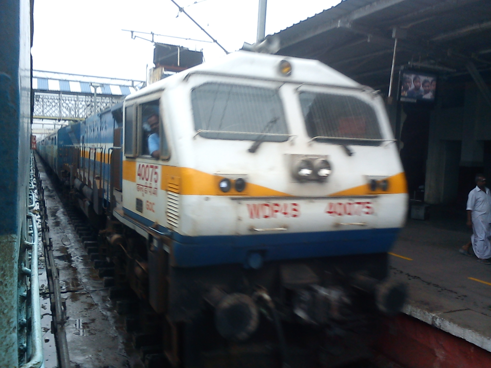 Pandian Express